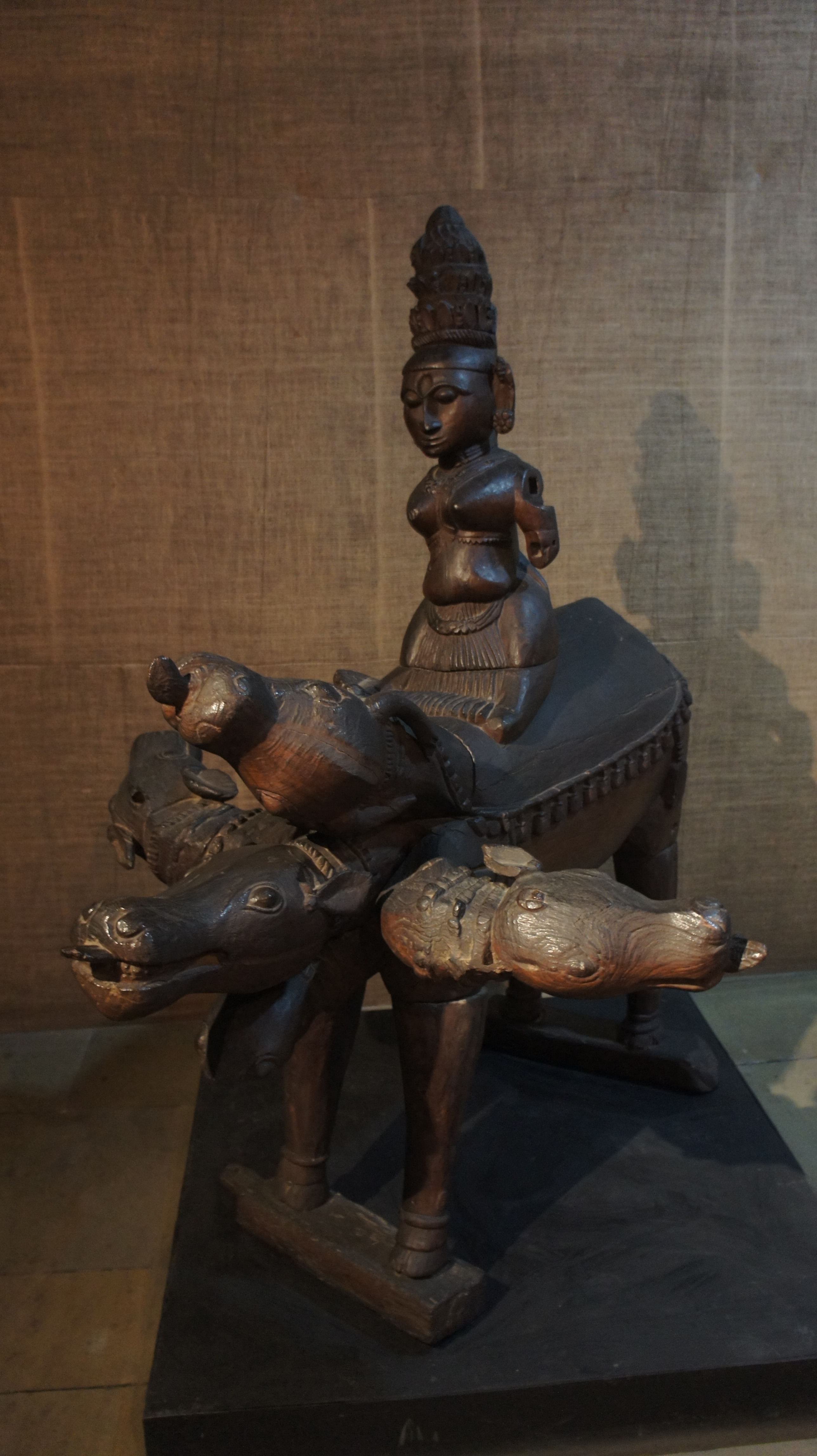 Wooden sculpture of a woman riding a four headed cow. Bhuta cult scrulpture acquired from Mekkekatu Shrine by Crafts Museum, New Delhi.